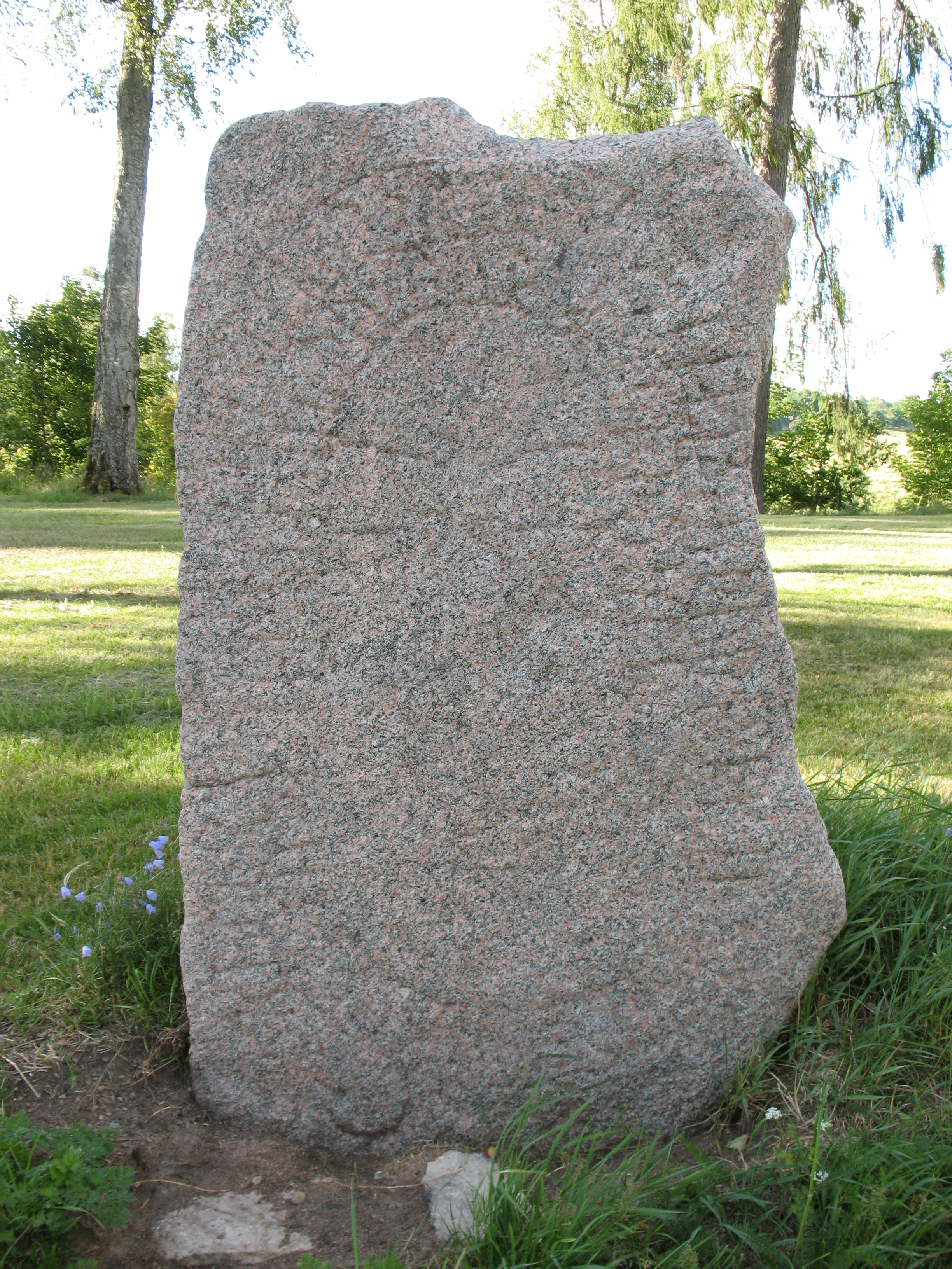 Runestone from Västergötland, Sweden.